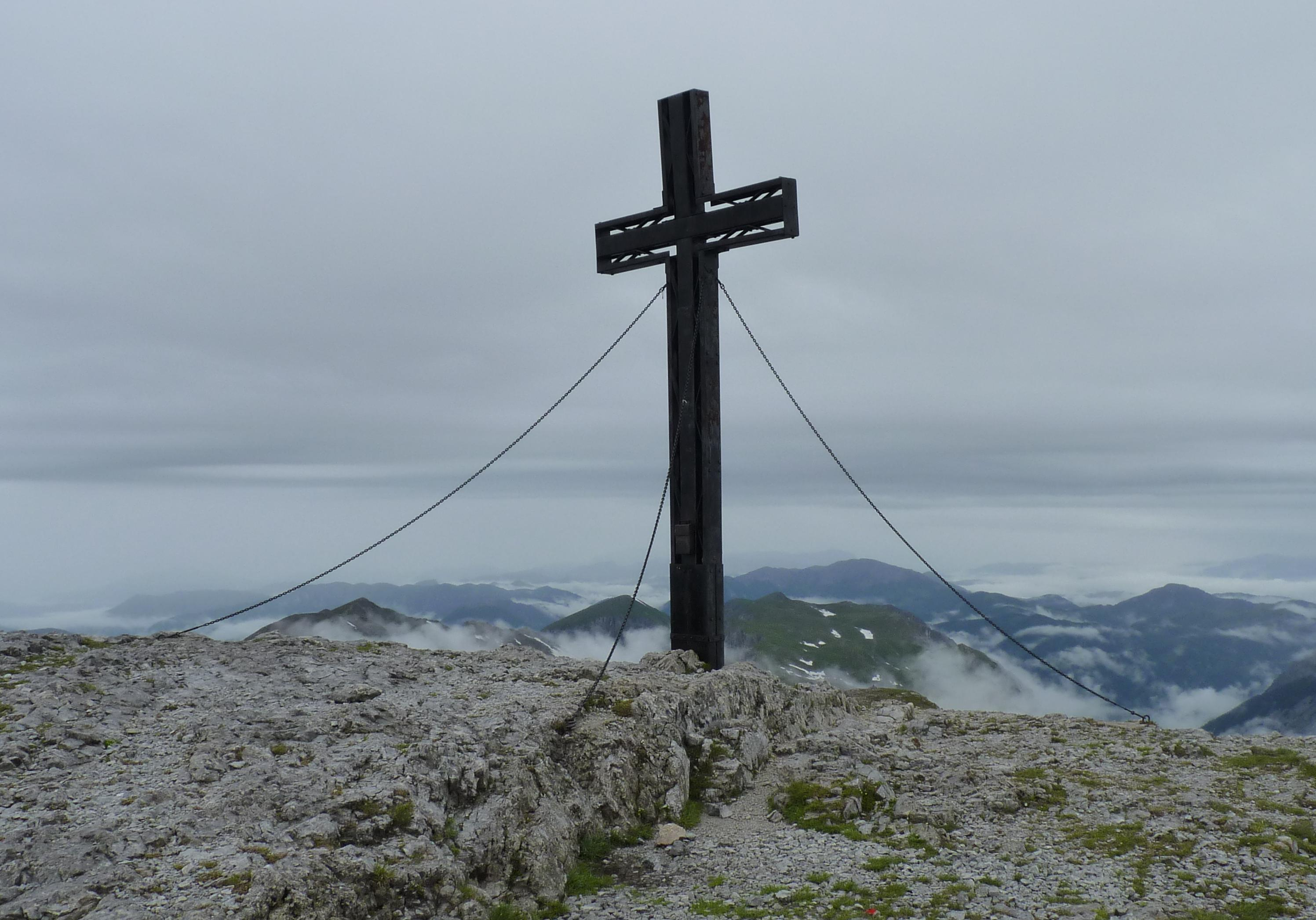 Cross at the top of the Hochschwab. Nature reserve "Wild Alpener Salzatal", Hochschwab, Austria